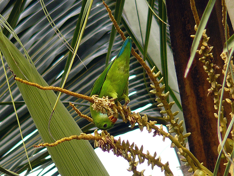 A male Vernal Hanging Parrot Loriculus vernalis on a coconut tree. The blue patch on its throat distinguishes it as male. Kannur, Kerala, India.